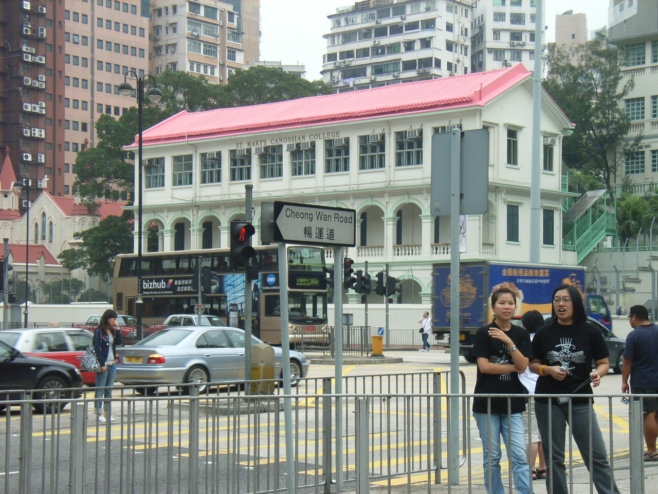 User:TSE Sandy Theresa St. Mary's Canossian College locates in Chatham Road, TST, Kowloon, Hong Kong